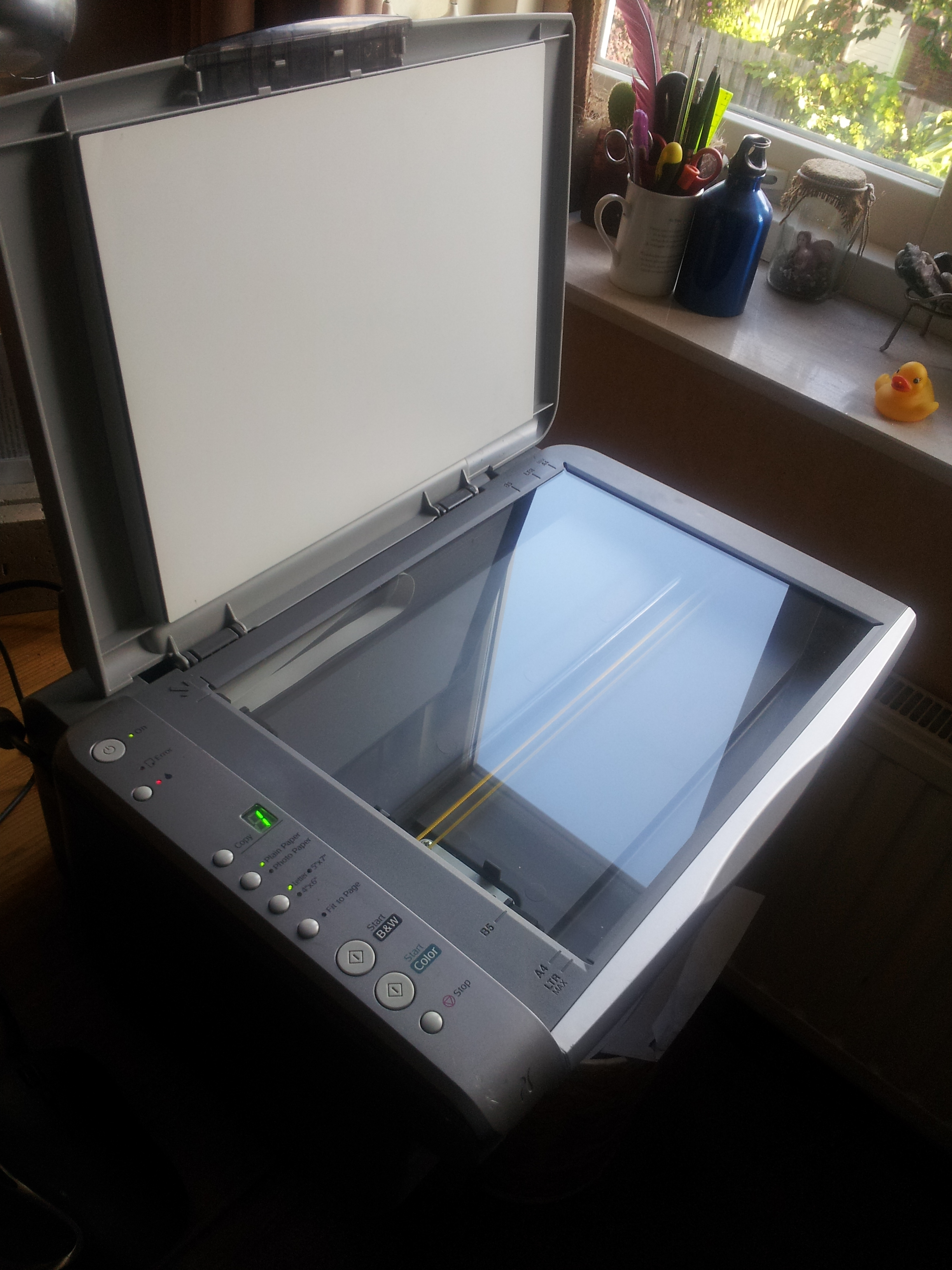 Epson stylus cx4200, my scanner